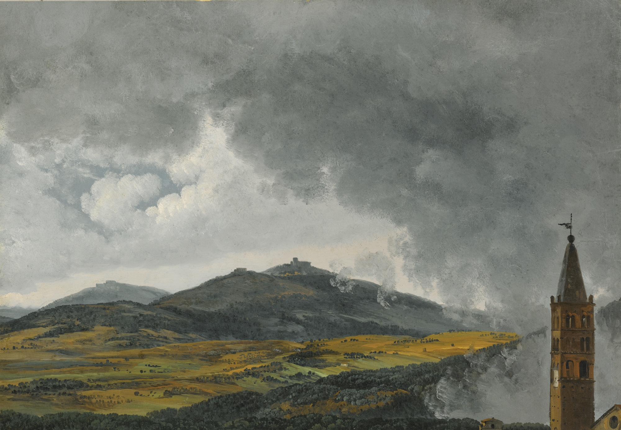 SIMON-JOSEPH-ALEXANDRE-CLÉMENT DENIS, ANTWERP 1755 - 1813 NAPLES, VIEW OF MONTICELLI, NEAR TIVOLI, signed, monogrammed and inscribed, on the reverse: Monticeli pres de Tivoly, / Le tems qui s'eclairci, peu a peu, apres l'orage. Sn Denis. 71, oil on paper, 31.4 by 44.8 cm.